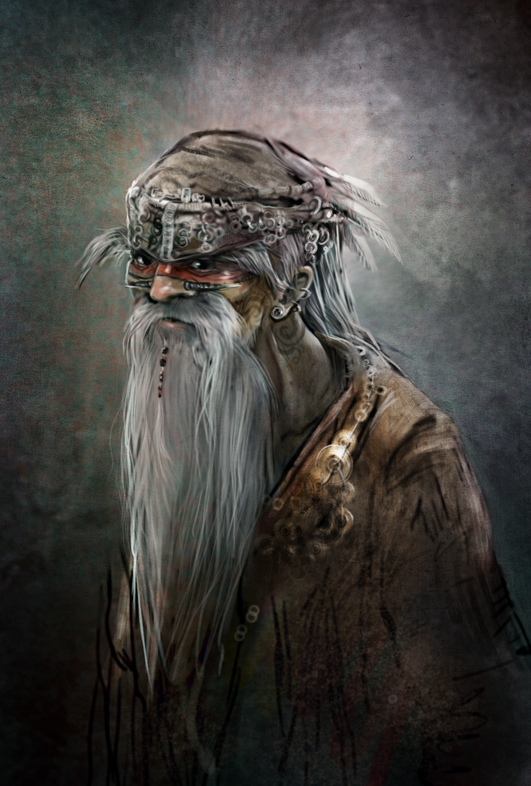 Concept-art done for Sintel , 3rd open-movie of the Blender Foundation. Artwork : David Revoy. Artwork made with Gimp-painter 2.6 and Mypaint 0.7.